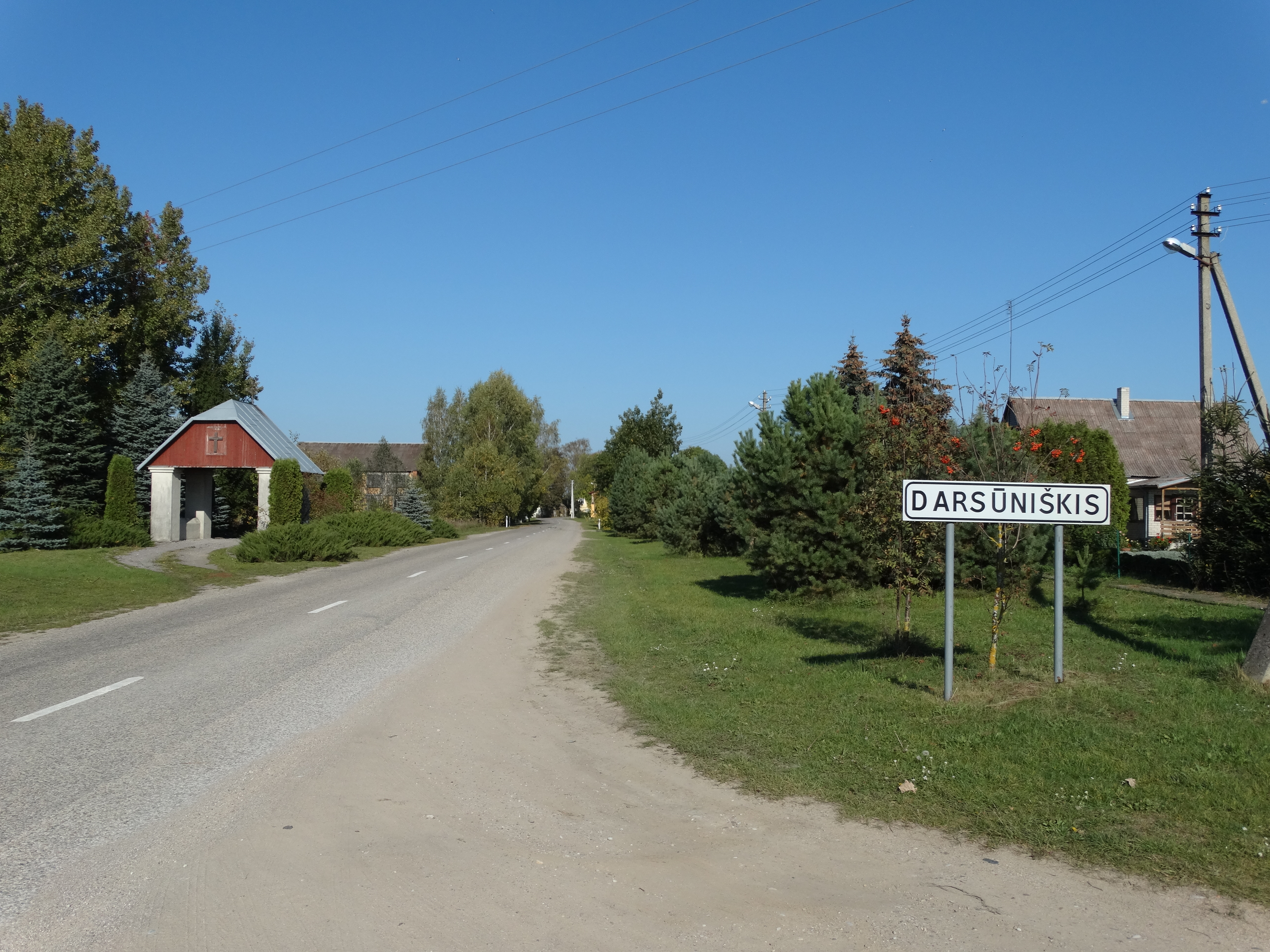 Gates in Darsūniškis, Lithuania